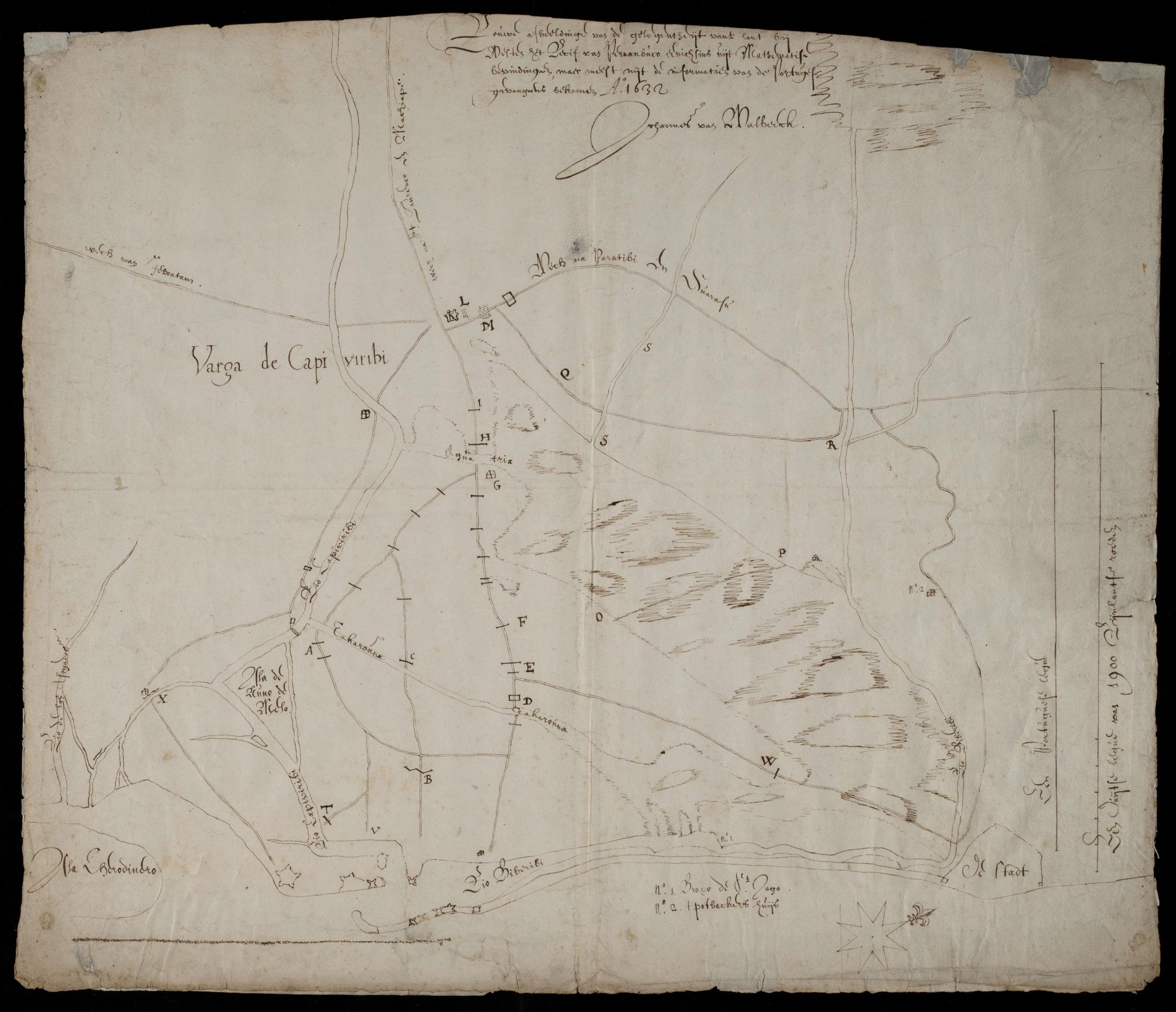 Manuscript chart of the region west of Recife. Title in the Leupe Catalogue (NA): Rouwe afbeeldinge van de gelegentheyt van 't lant by westen het recif van Pernanbuco, eenigsins uyt Mathematische bevindingen, maer meest uyt de informatien van de Portugese gevangens bekomen. Rouwe afbeeldinge van de gelegentheyt van 't lant by Westen het Recif van Pernanbuco, eenigsins uyt Mathematische bevindingen, maer meest uyt de informatien van de Portugese gevangens bekomen. Numbers to a key are indicated on the map, but there are no explanatory notes.